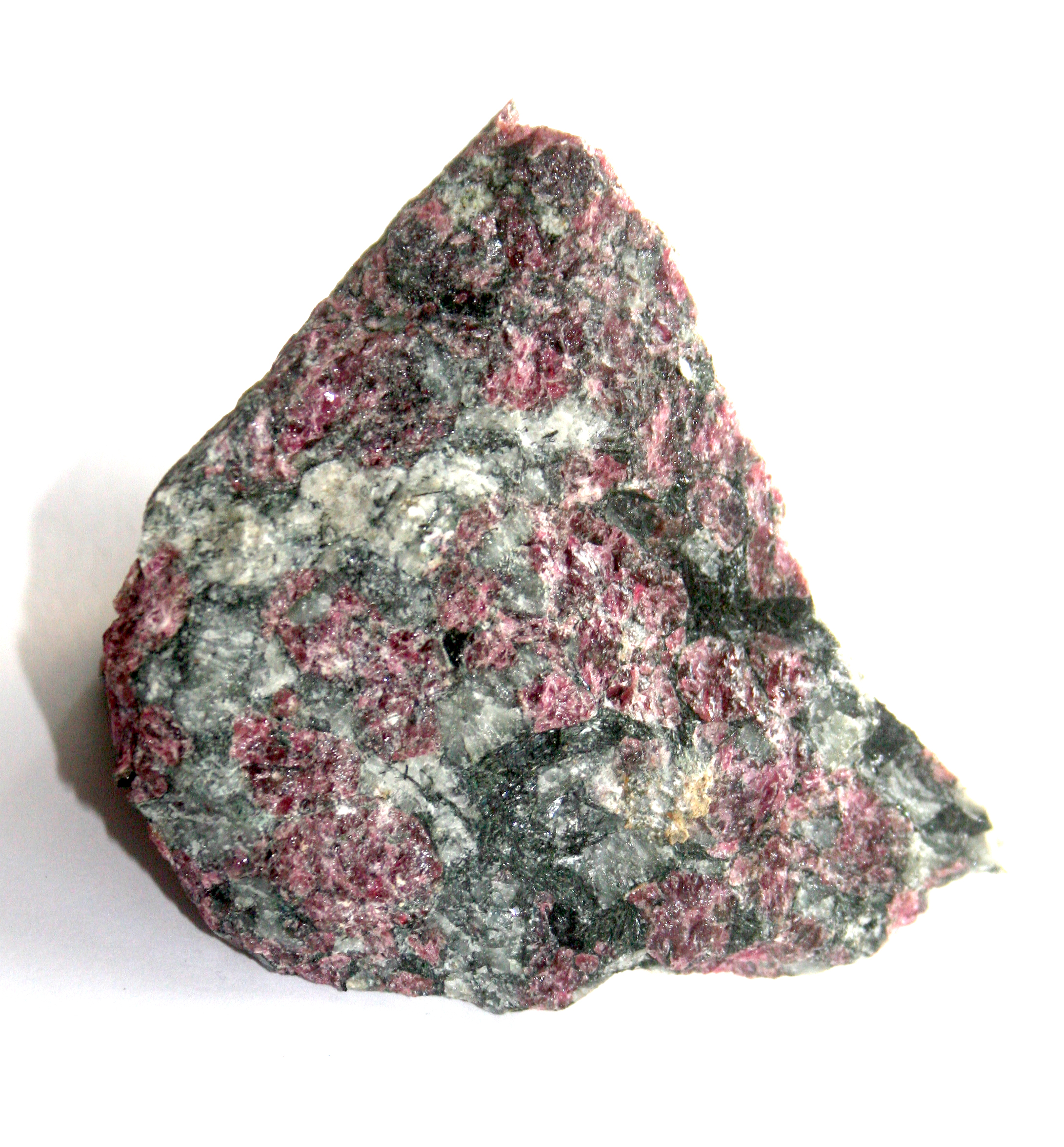 Eudialyte syenite, from Kola, Russia